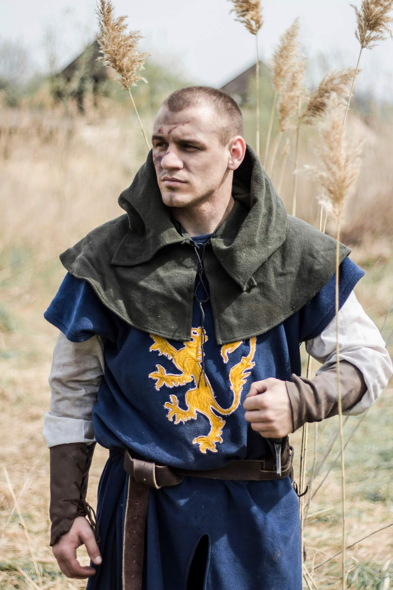 Photo of Ivan Dancha from the filming of King Danilo